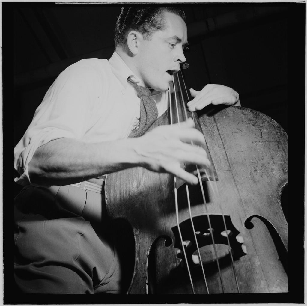 Eddie Safranski, New York, ca. Jan. 1947 (Eddie_Safranski,_New_York,_ca._Jan._1947_(William_P._Gottlieb)